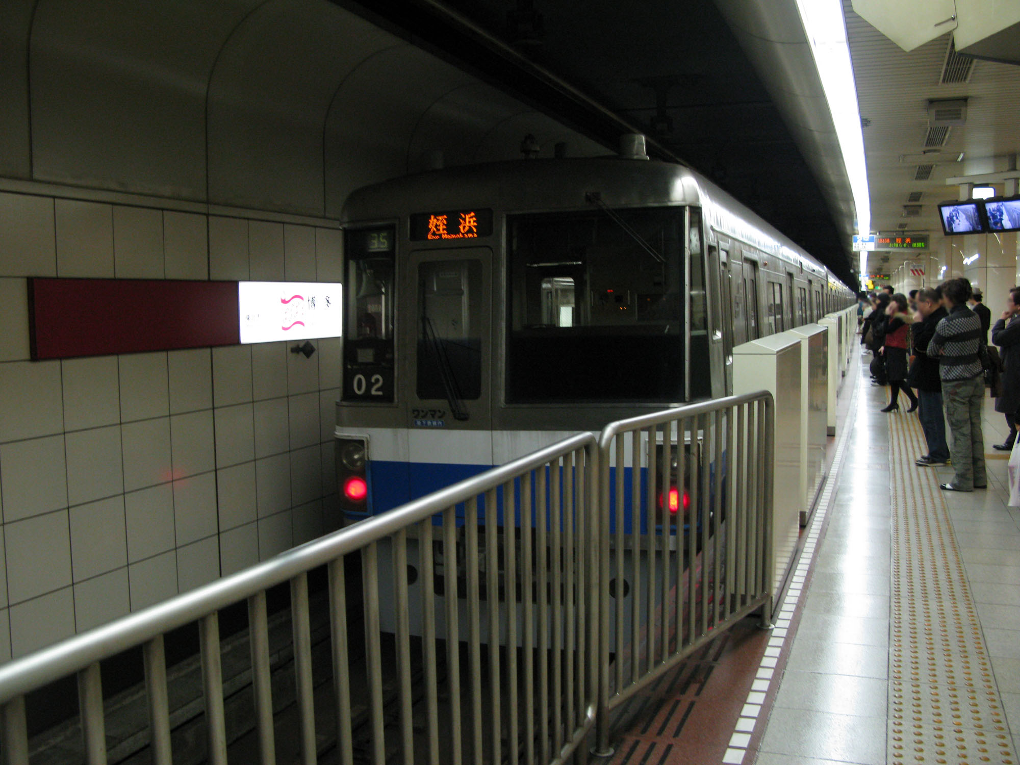 Fukuoka Subway 1000 series EMU at Hakata Station